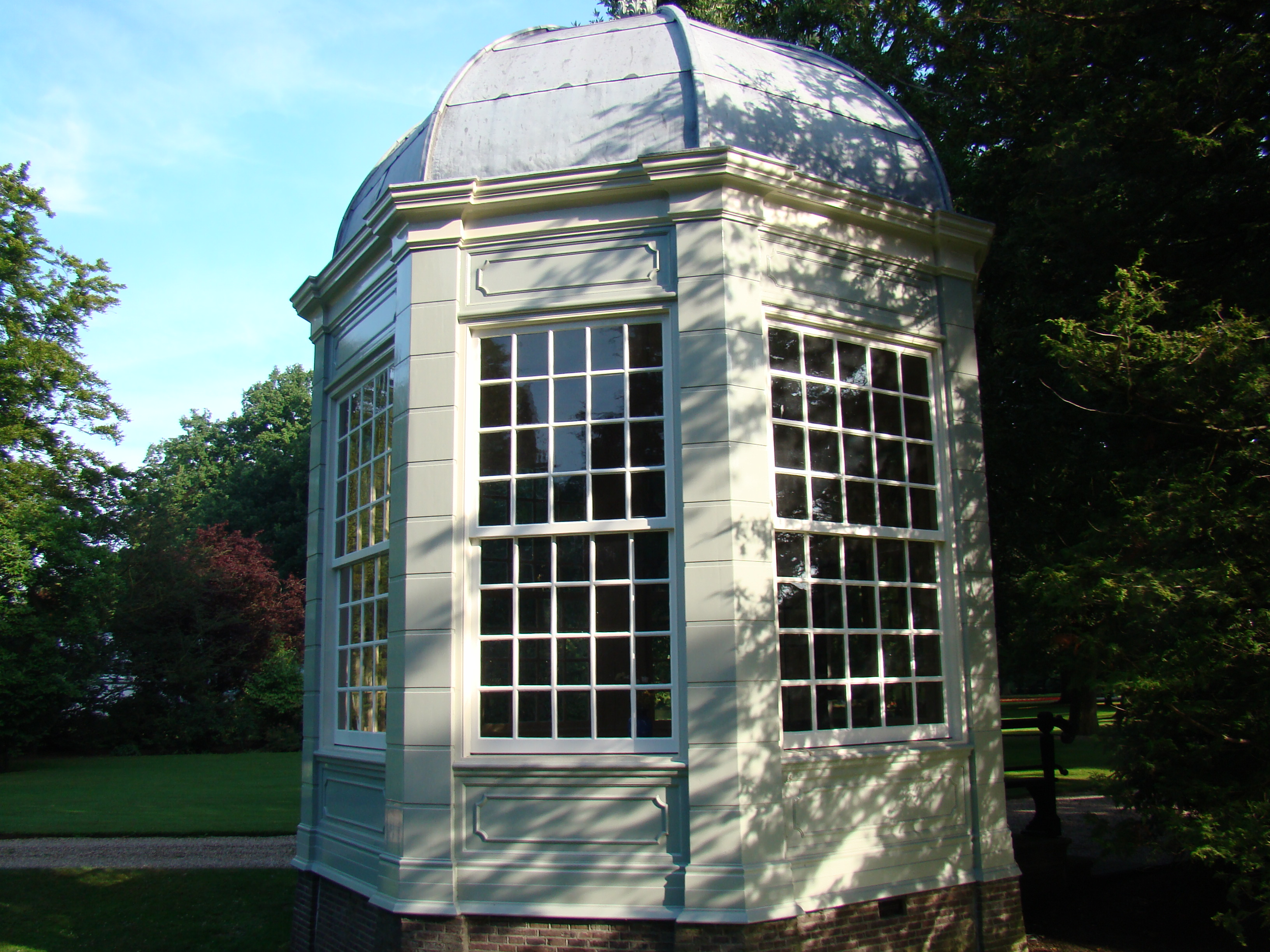 Monumental buildings in Nieuwersluis, Netherlands